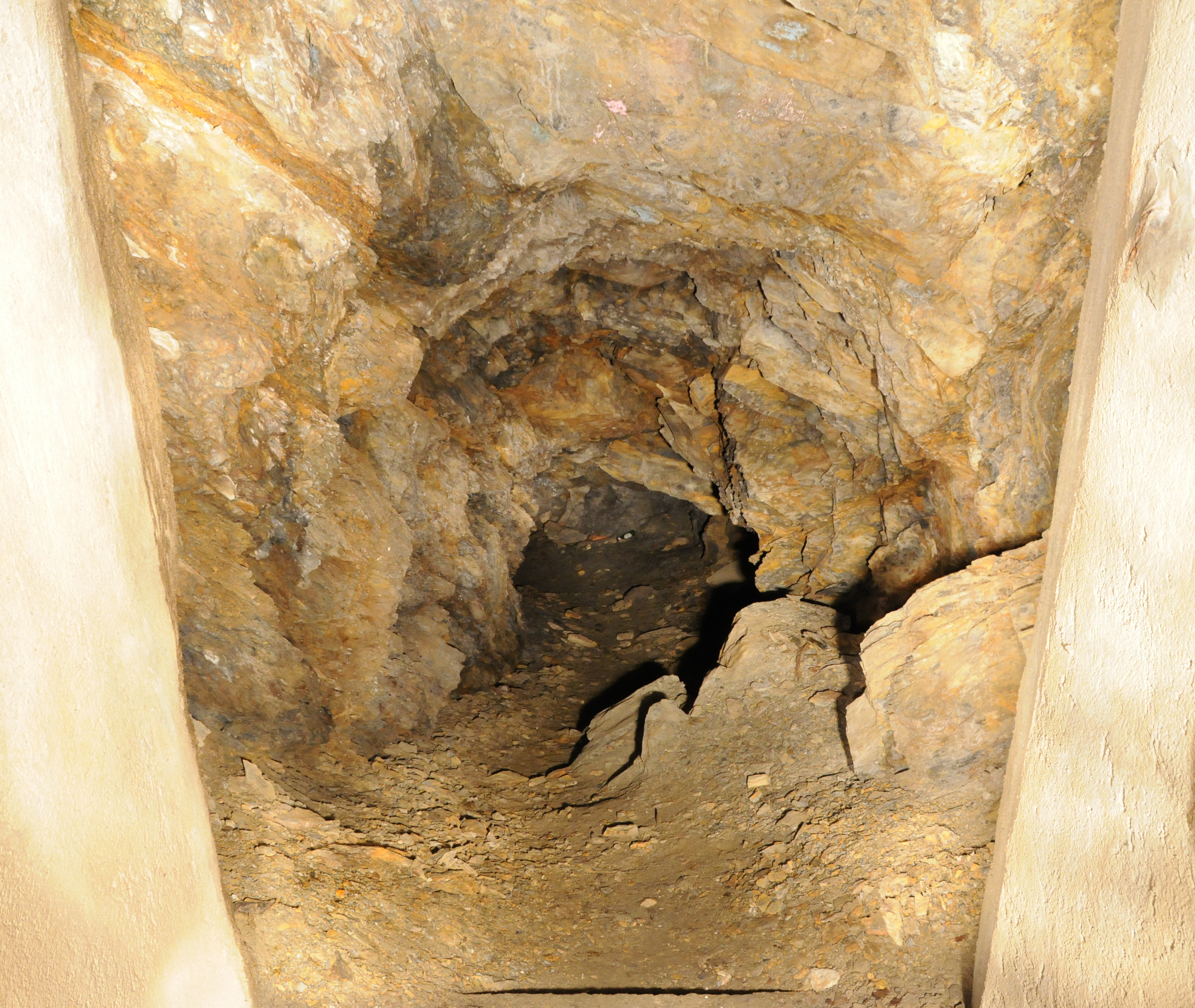 Galerie sous roc. Salbert hill fortifications.